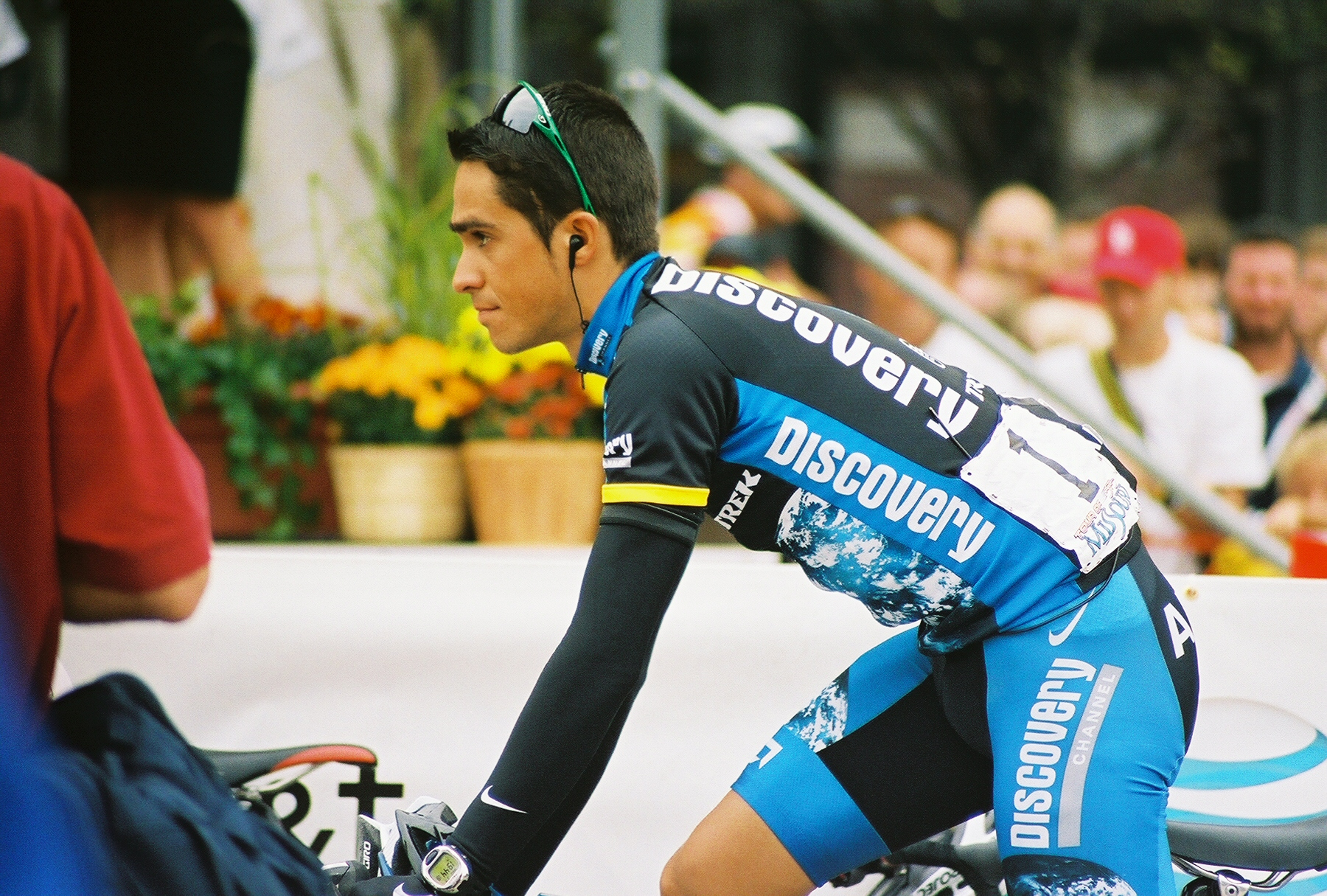 Taken at the Tour of Missouri bike race in St. Louis, MO.